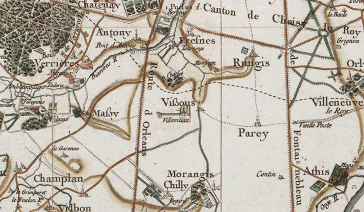 Area of Wissous (France) at the 17th century by Cassini database.